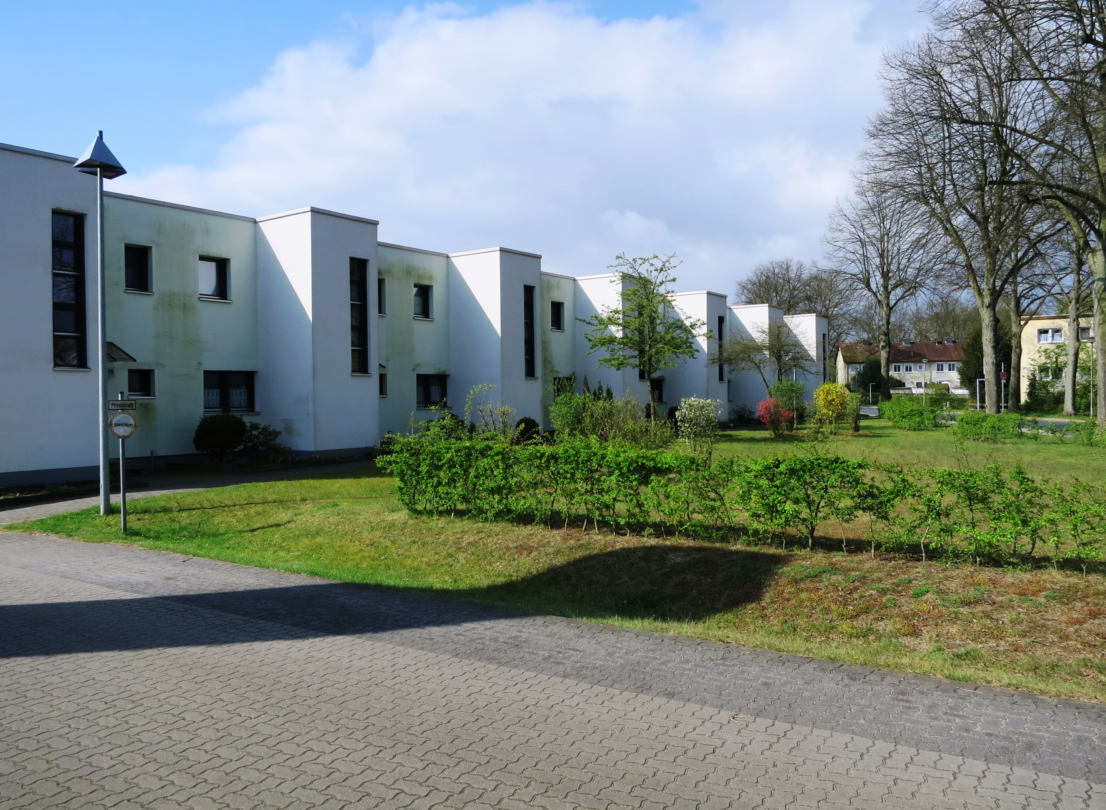 Siedlung Blumläger Feld photographed in April 2015